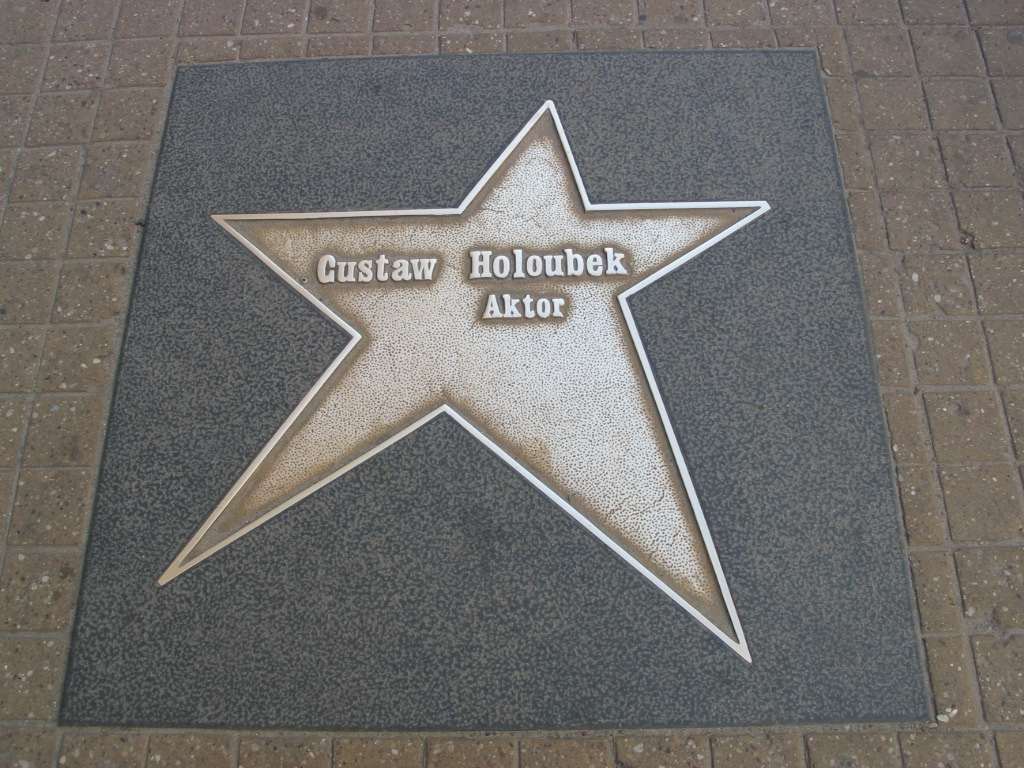 Łódź Walk of Fame - Gustaw Holoubek